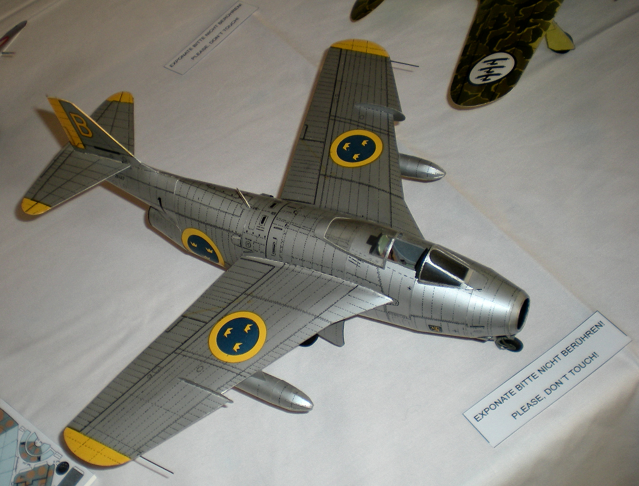 GELI-TECHNISCHER MODELLBAU Nr. 22 Saab J29 Tonne